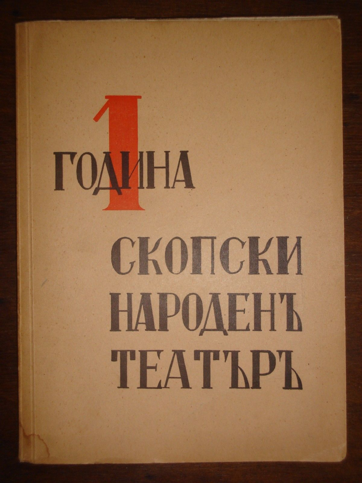 1 Year Skopje Popular Theatre